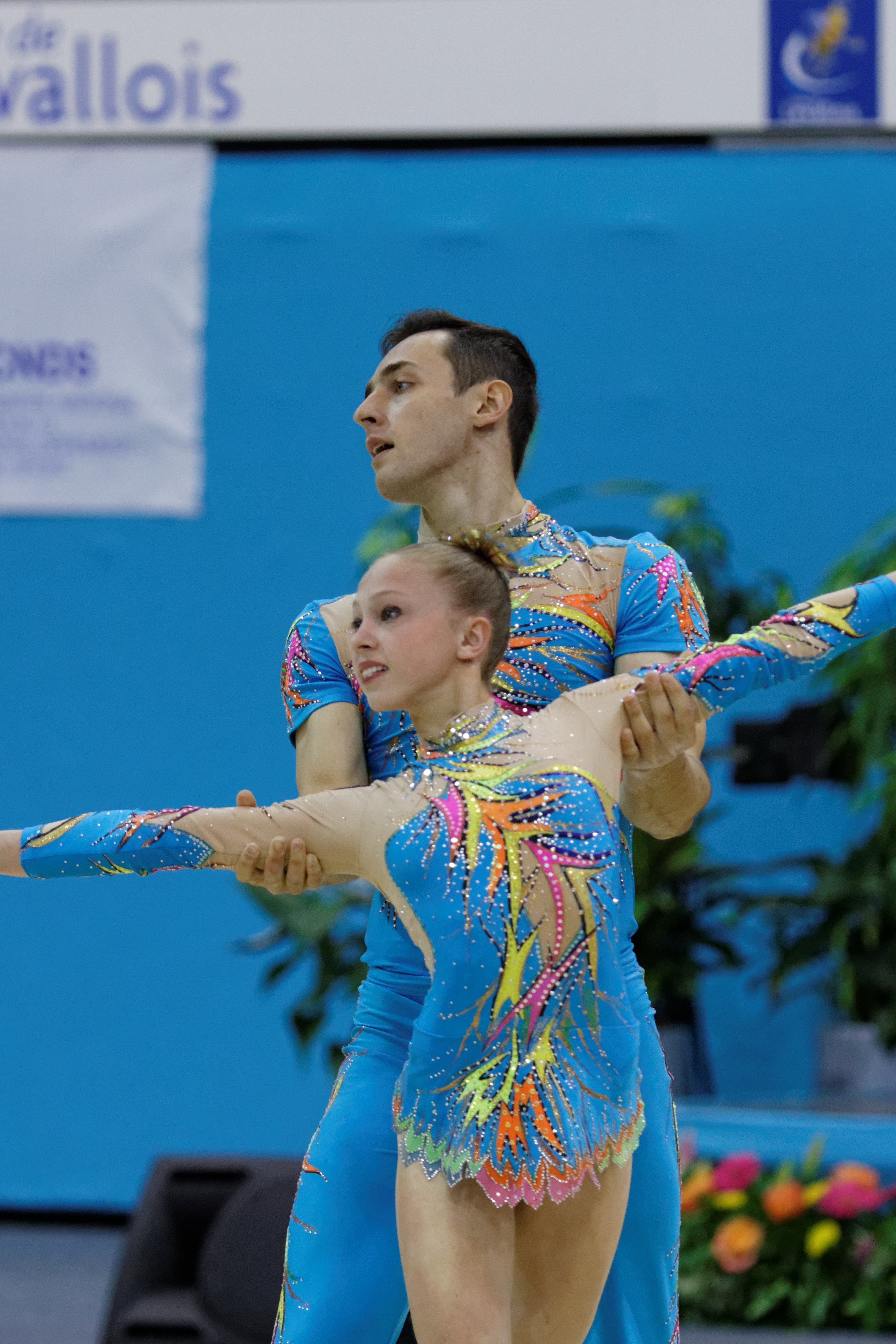 2014 Acrobatic Gymnastics World Championships, 10th-12 July, Levallois-Perret, France. Qualifications: mixed pair. Belarus 2.